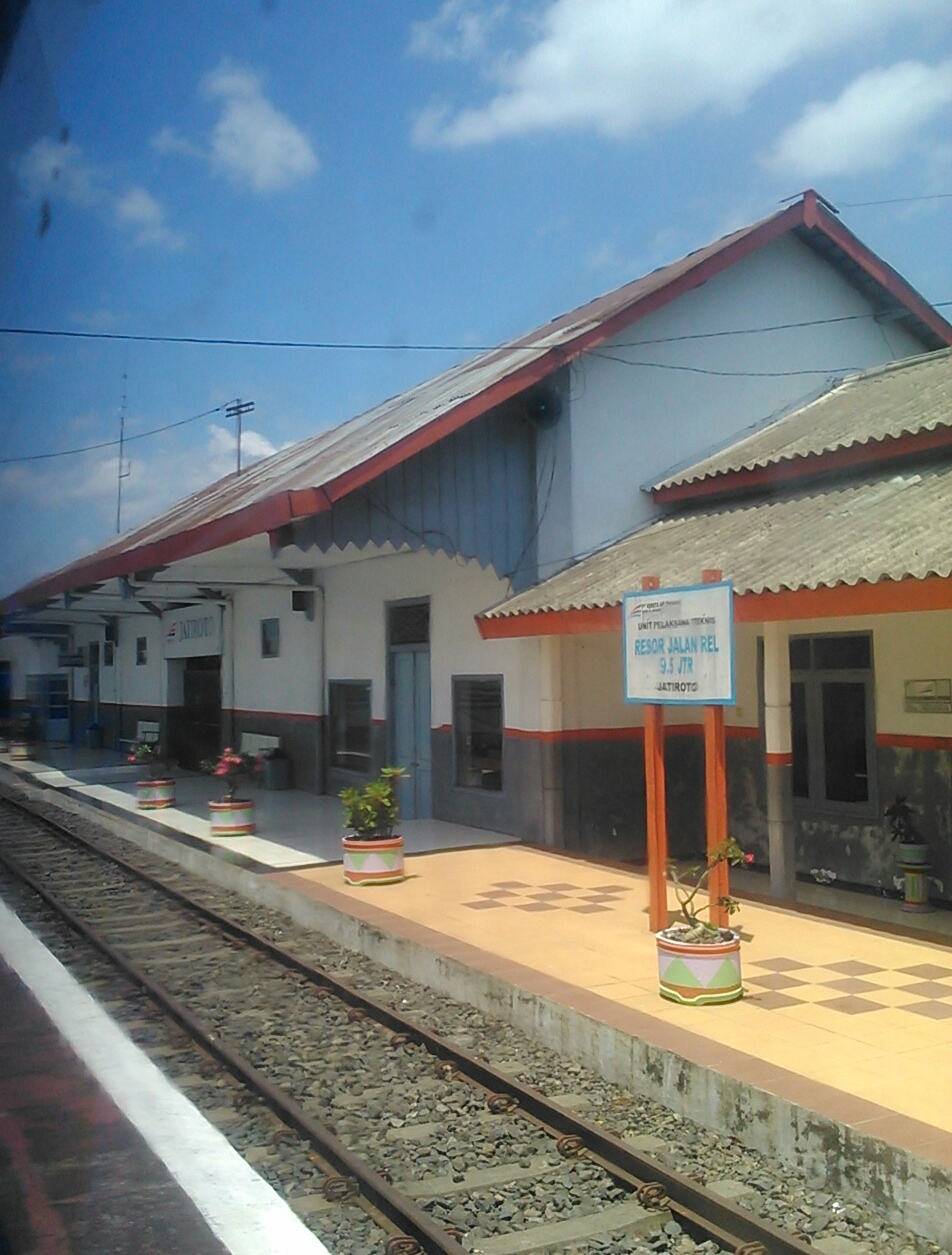 Jatiroto station, south of Probolinggo